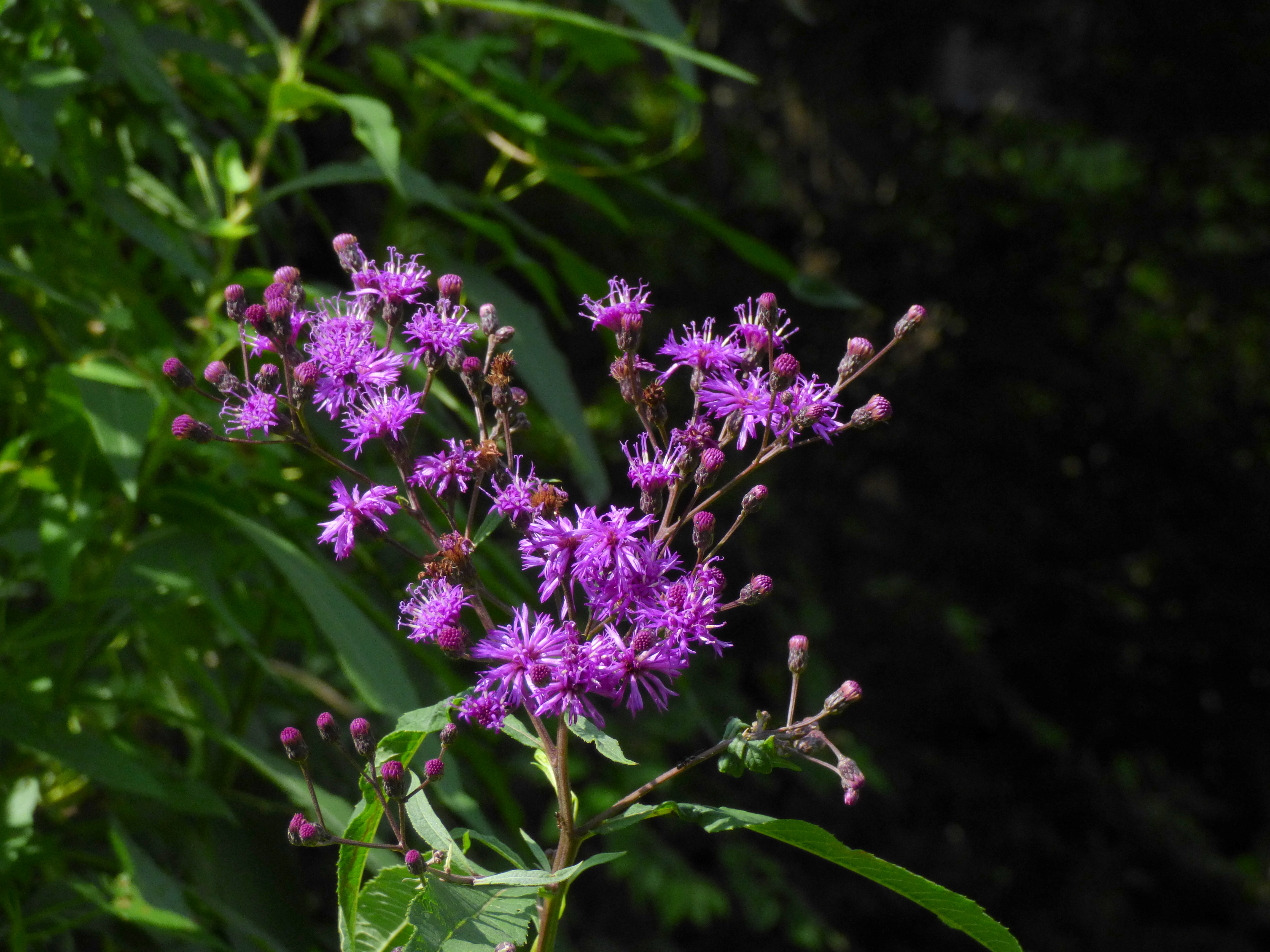 Tall ironweed - Vernonia gigantea - taken near Cincinnati, Oh.